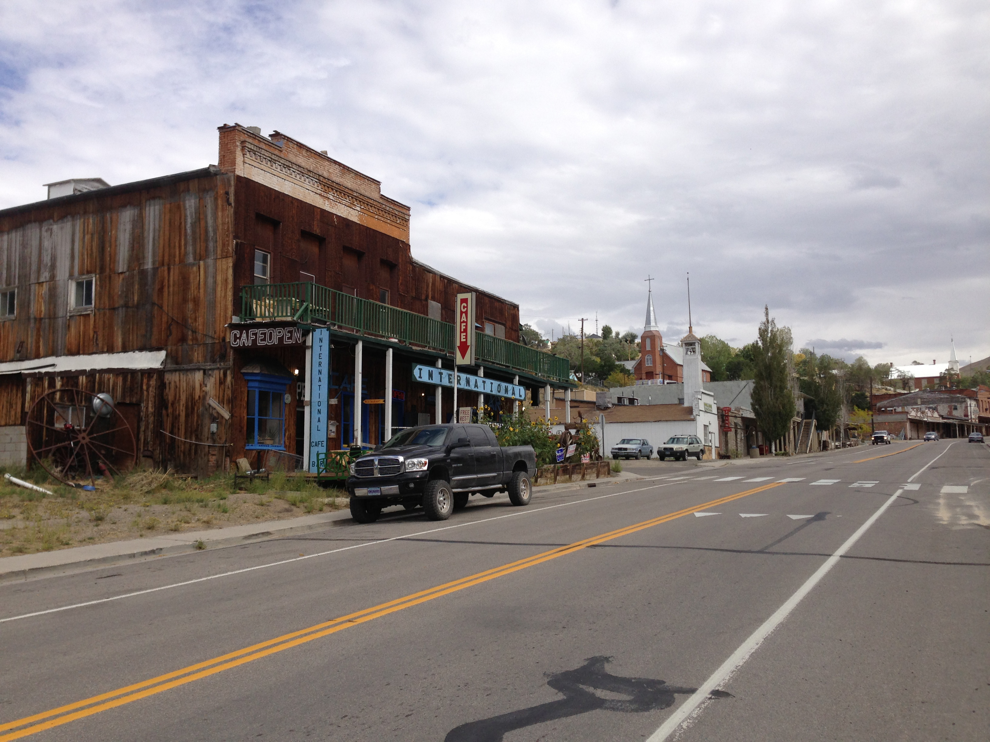 Businesses along U.S. Route 50 in Austin, Nevada